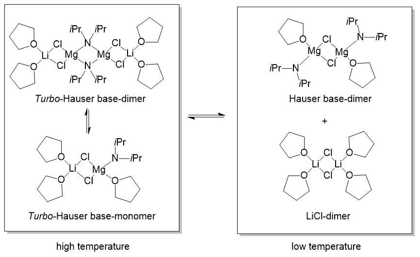 IPr-Turbo Hauser Base in solution